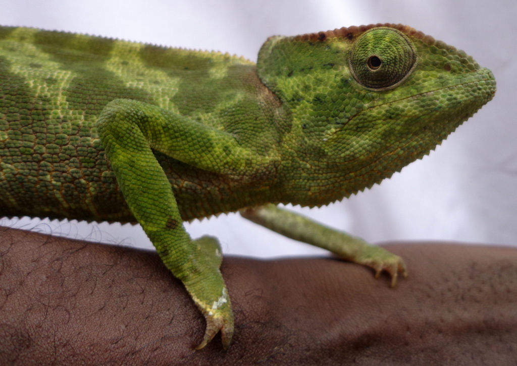 Chameleo gracilis. A stray.